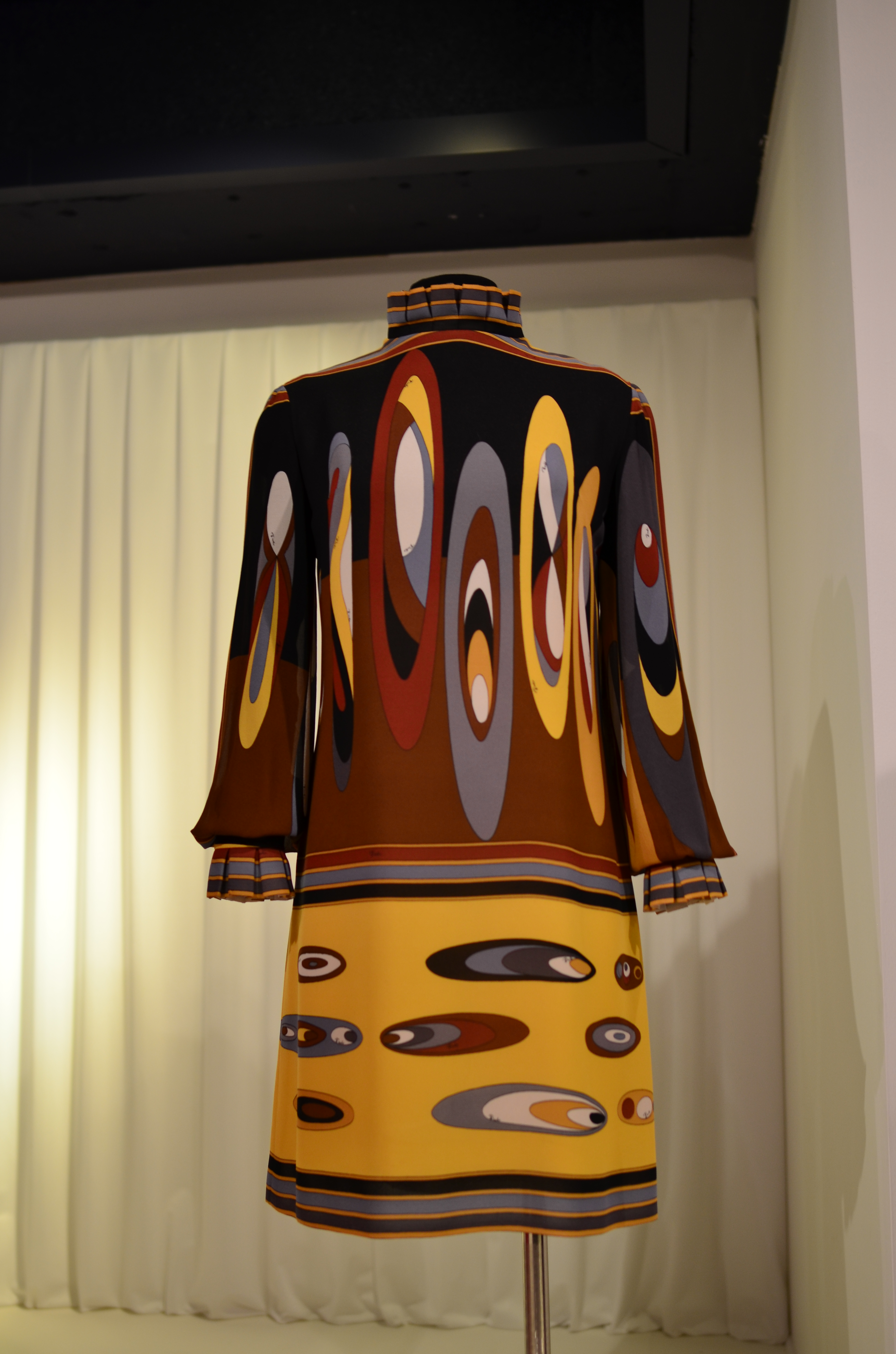 1970s Emilio Pucci silk cocktail dress, sold at Frederick & Nelson in Seattle, "Seattle Style: Fashion/Function" exhibit (2019), Museum of History and Industy, South Lake Union, Seattle, Washington, USA.